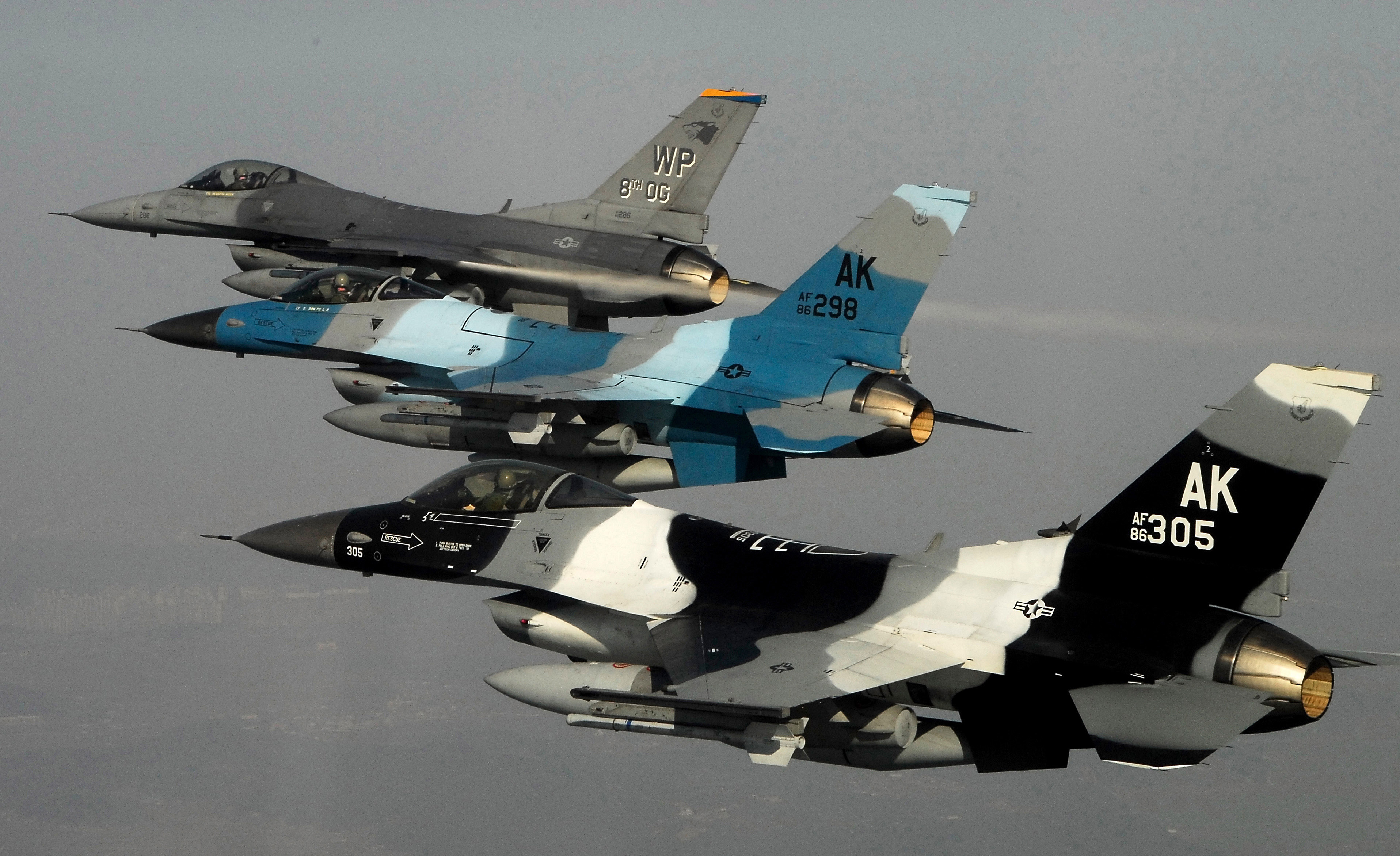 Three U.S. Air Force F-16 Fighting Falcon Block 30 aircraft from the 80th Fighter Squadron fly in formation over South Korea during a training mission on Jan. 9, 2008.